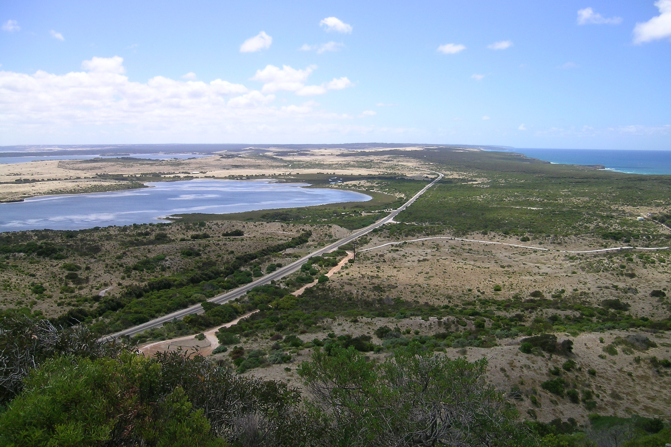 Kangaroo Island view from a sand hill